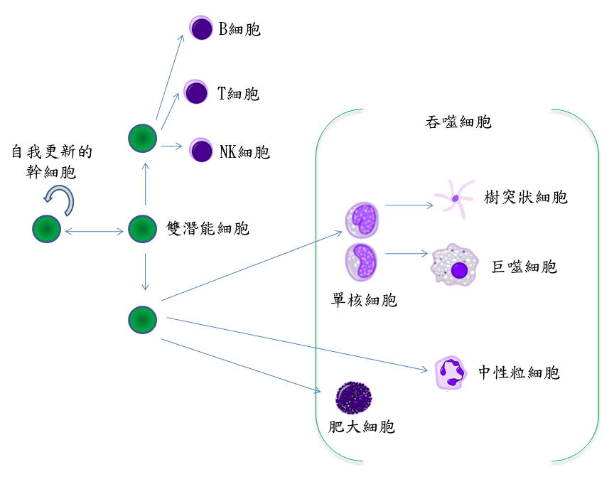 Chinese version of File:Myeloid_cells.png